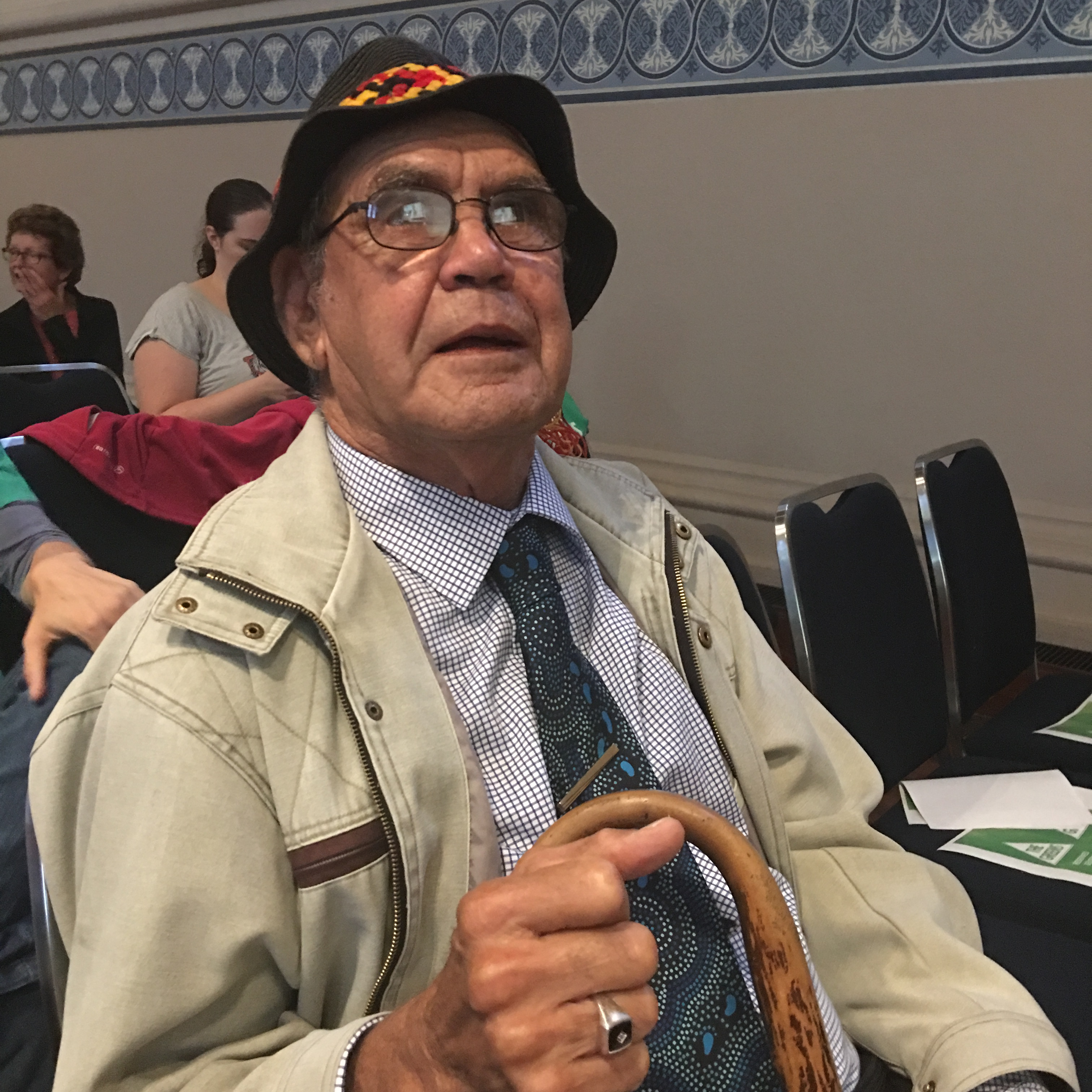 Noongar Elder and Social Change advocate